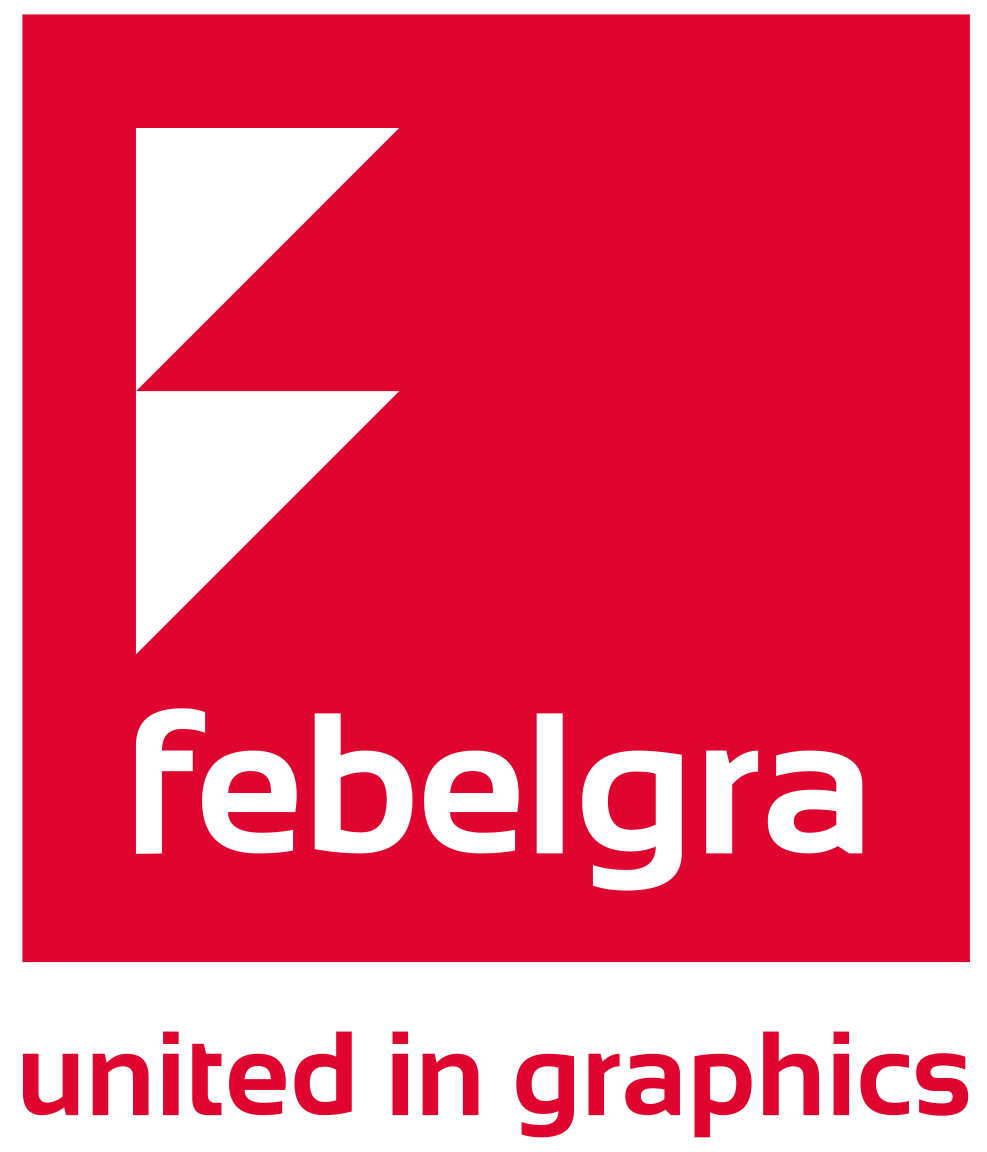 Febelgra - united in graphics logo